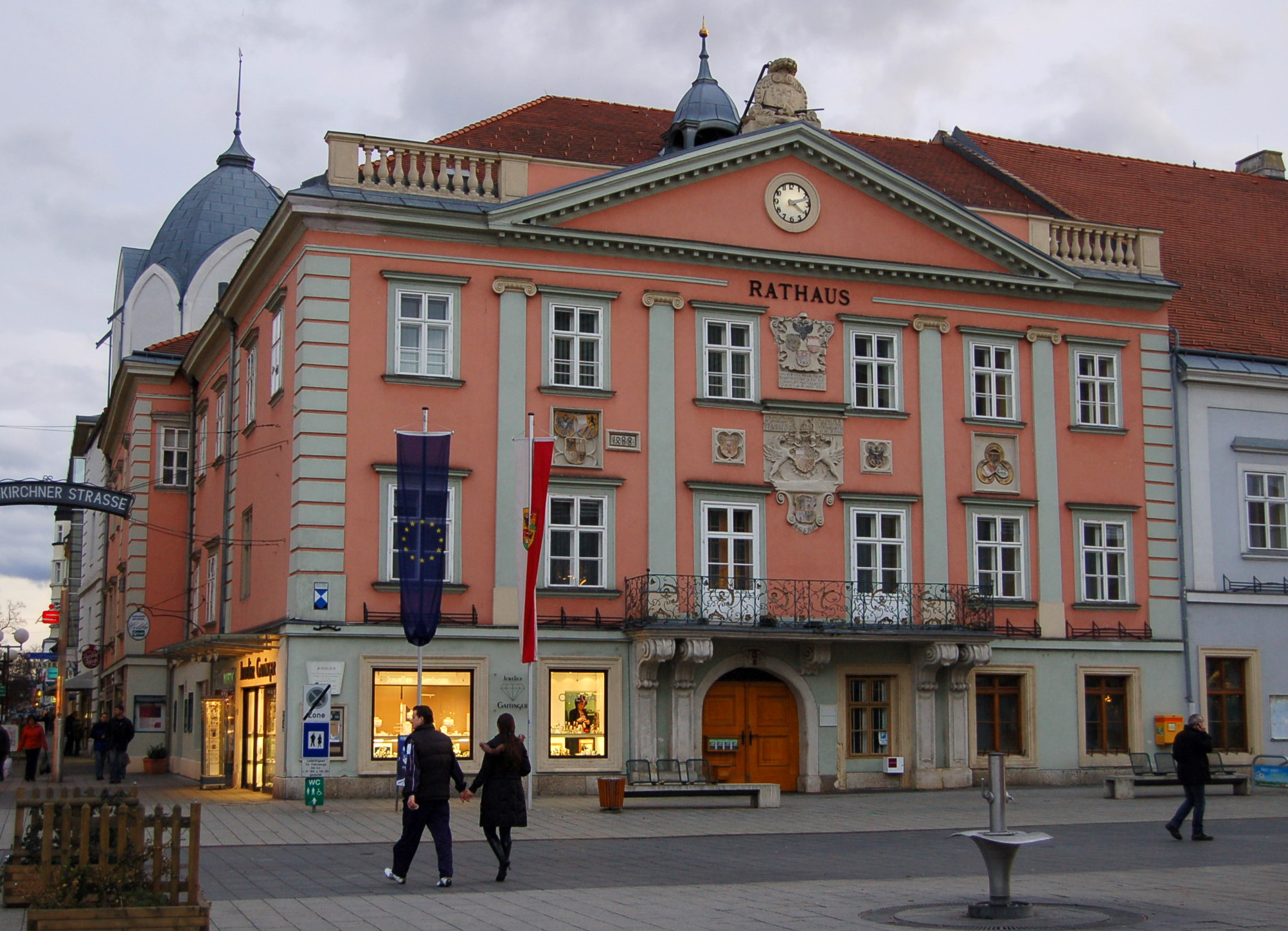 Town hall of Wiener Neustadt, Lower Austria